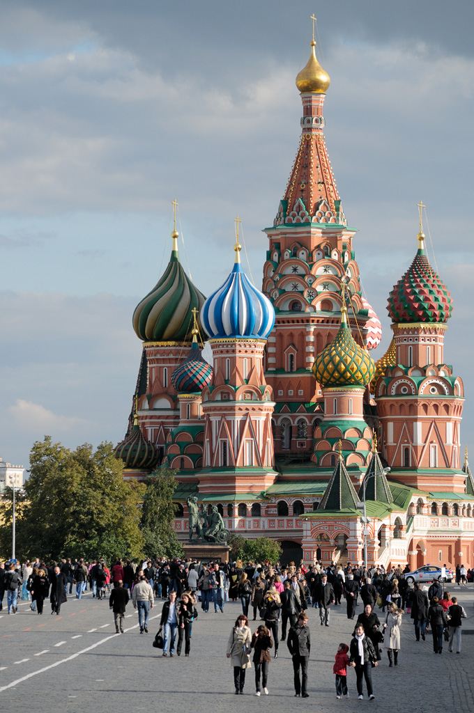 The Cathedral of Intercession of the Virgin on the Moat (Собо́р Покрова́, что на Рву) also known as the Cathedral of Saint Basil the Blessed (Храм Васи́лия Блаже́нного) on the Red Square, Moscow.